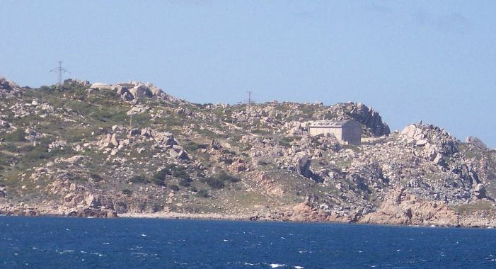 High-voltage direct current (HVDC) cable reception station (Santa Teresa Cable Terminal) of the SACOI 1 line in Sardinia